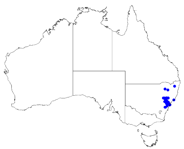 Boronia rubiginosa downloaded from Australasian Virtual Herbarium 10 April 2019 using This download included all the environmental overlay fields and ALA's data checking fields including "cultivated / escapee", "outside expert range for species", "latitude is negated", "coordinates are transposed", "taxon misidentified", "habitat incorrect for species", and "suspected outlier" (711 fields). Deleting occurrences for which any of the above were true, 46 specimens with coordinates were deleted.